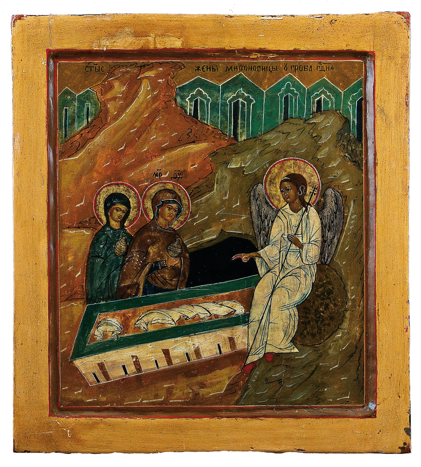 The two women at the Sepulchre. Tempera on wood panel. The two holy women, Mary Mother of God and Mary Magdalene advancing from the left, holding unguents with myrrh, encountering a sarcophagus containing only the shroud of Christ. The seated angel animatedly pointing to the empty tomb. Rocky hills behind, the image's horizon limited by the high walls of Jerusalem. Subtly painted in pastel. Inset in a later panel. Russian, 17th century. 38 x 34 cm. Russland, 17. Jh.